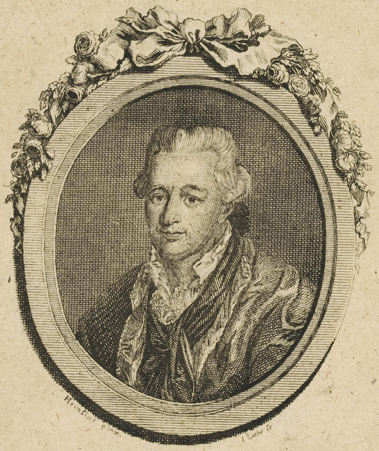 Depicted person: Ernst Wilhelm Wolf